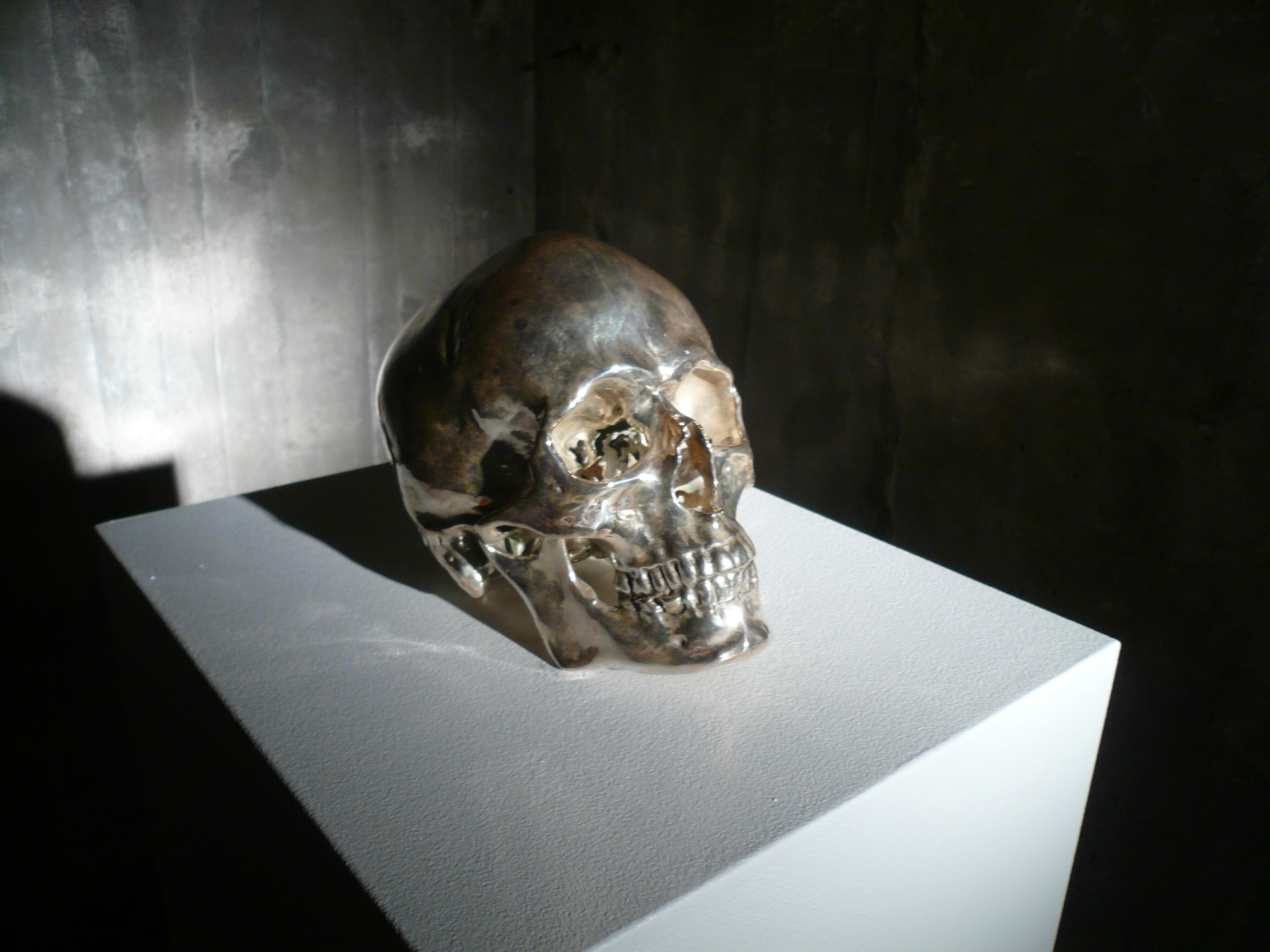 Skull. Art-exhibition at Bunker (Berlin)